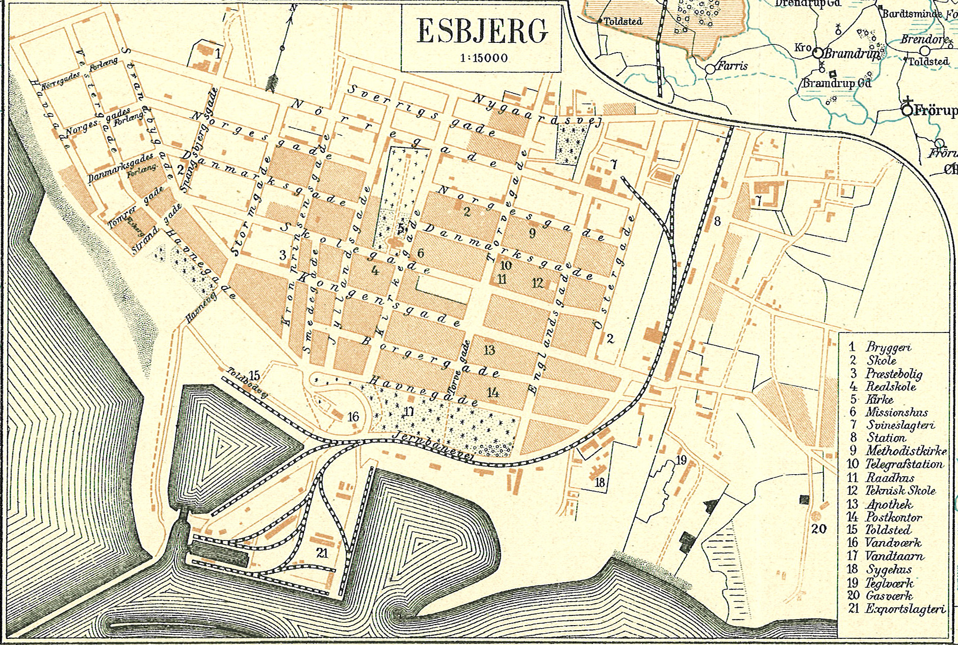 Map of the eastern part of Ribe County in Denmark